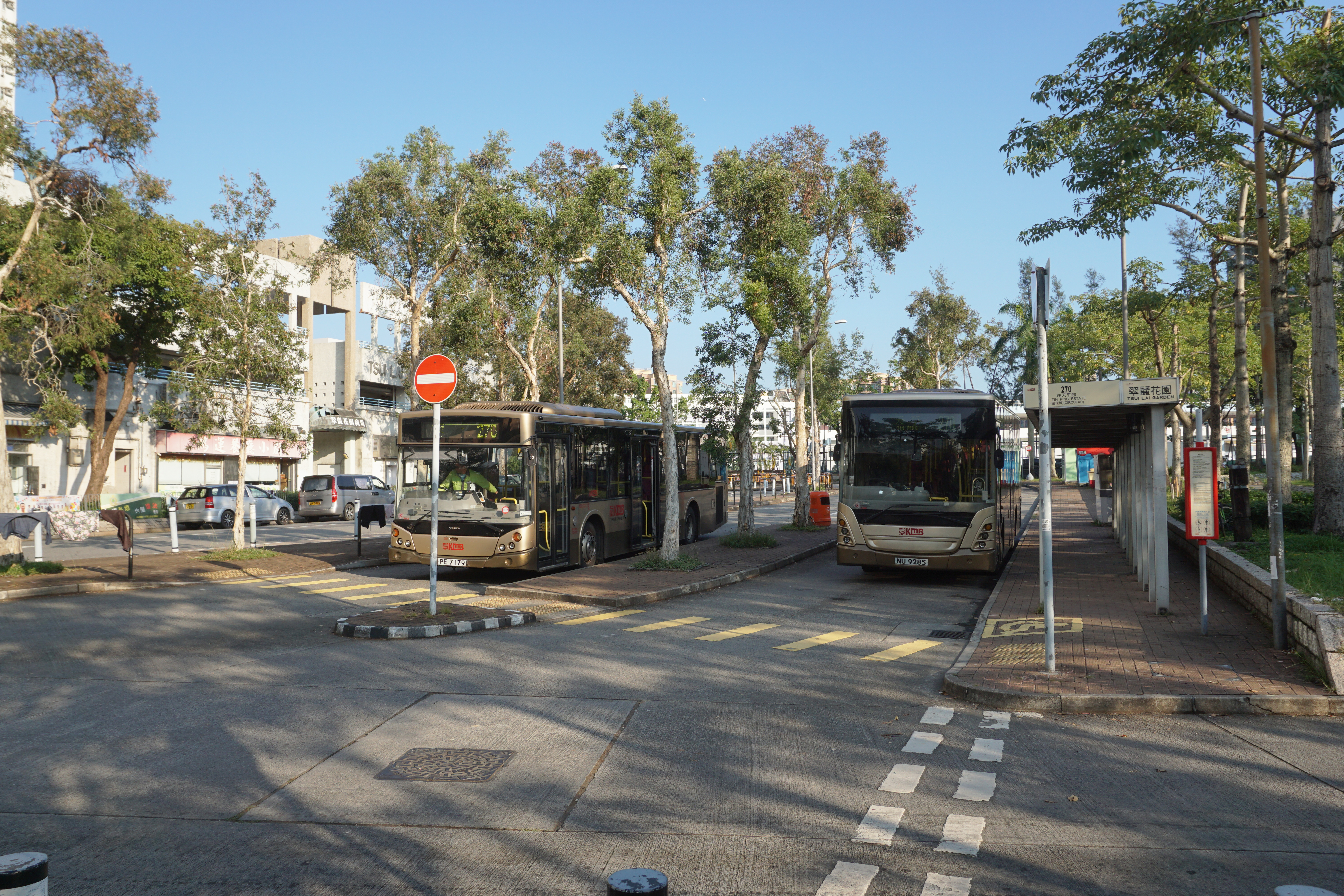 Tsui Lai Garden Bus Terminus in Sheung Shui, Hong Kong.